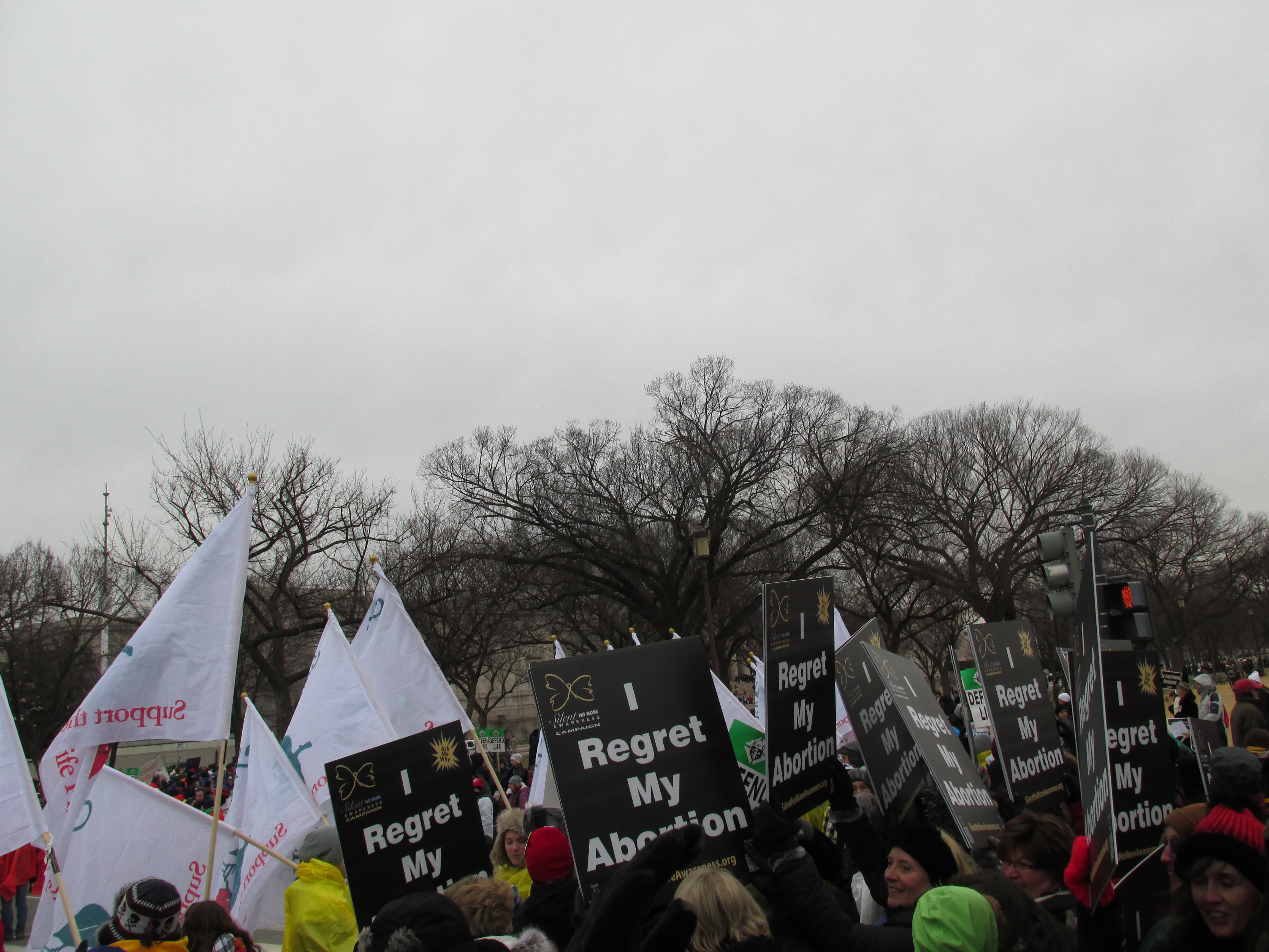 Women from Silent No More Awareness, a pro-life activist and group for women who have had abortions